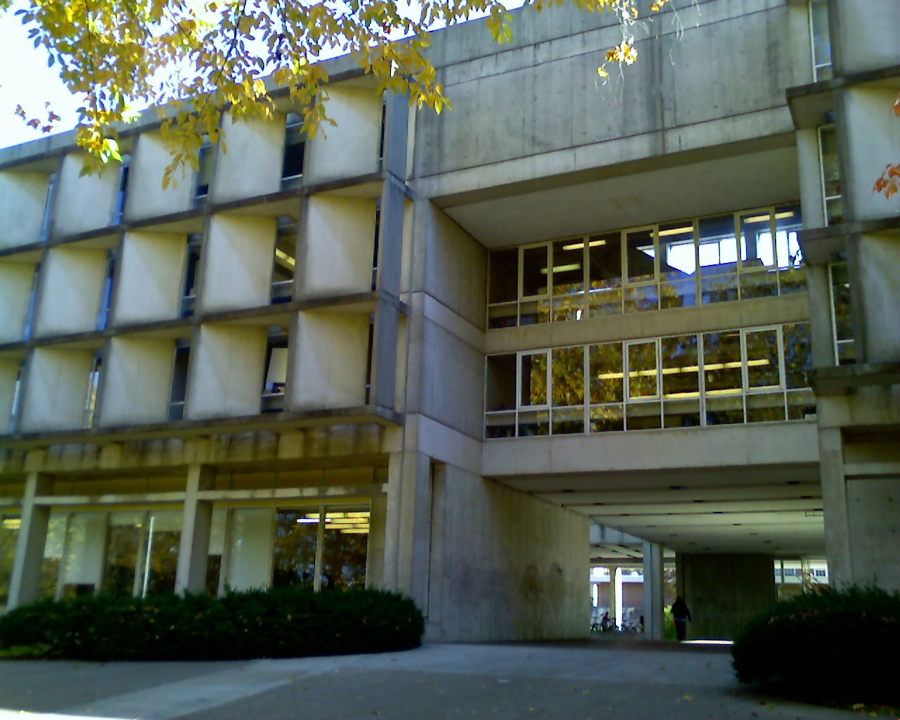 Faner Hall, Southern Illinois University Carbondale